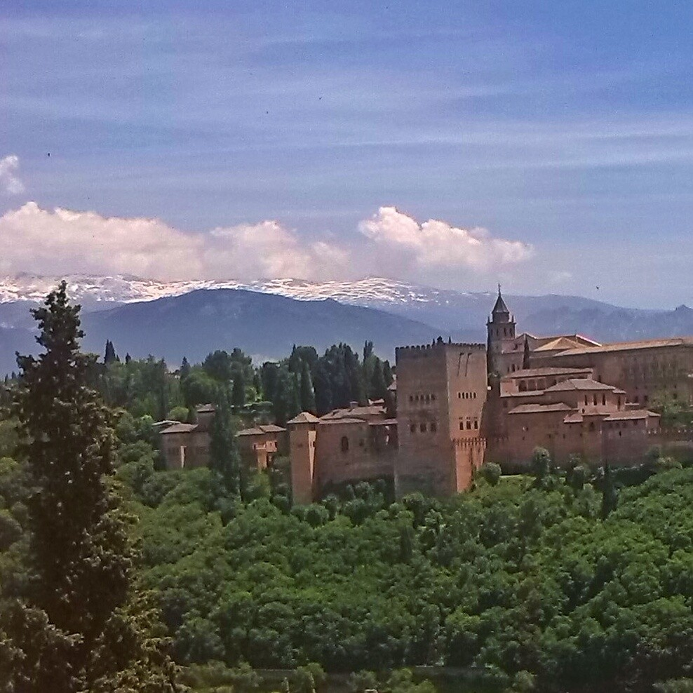 The Nazarid Palaces, part of Alhambra in Granada, with the snow-capped Sierra Nevada in the background.